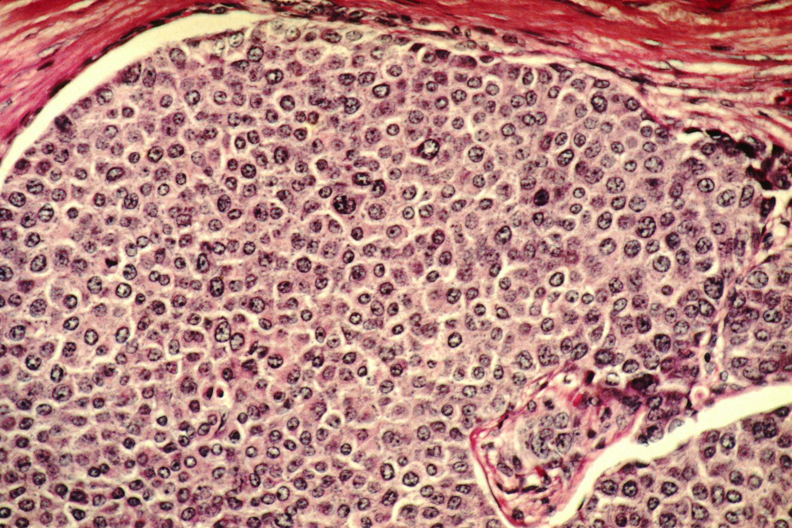 Title Breast Cancer Cells Description Breast cancer invades normal tissues and establishes new centers of growth. Note that the duct on inside of breast is completely filled with tumor cells. This histological slide, stained with H&E stain and magnified to 100x. Topics/Categories Cancer Types -- Breast Cancer Cells or Tissue -- Abnormal Cells or Tissue Type Color, Photo Source National Cancer Institute